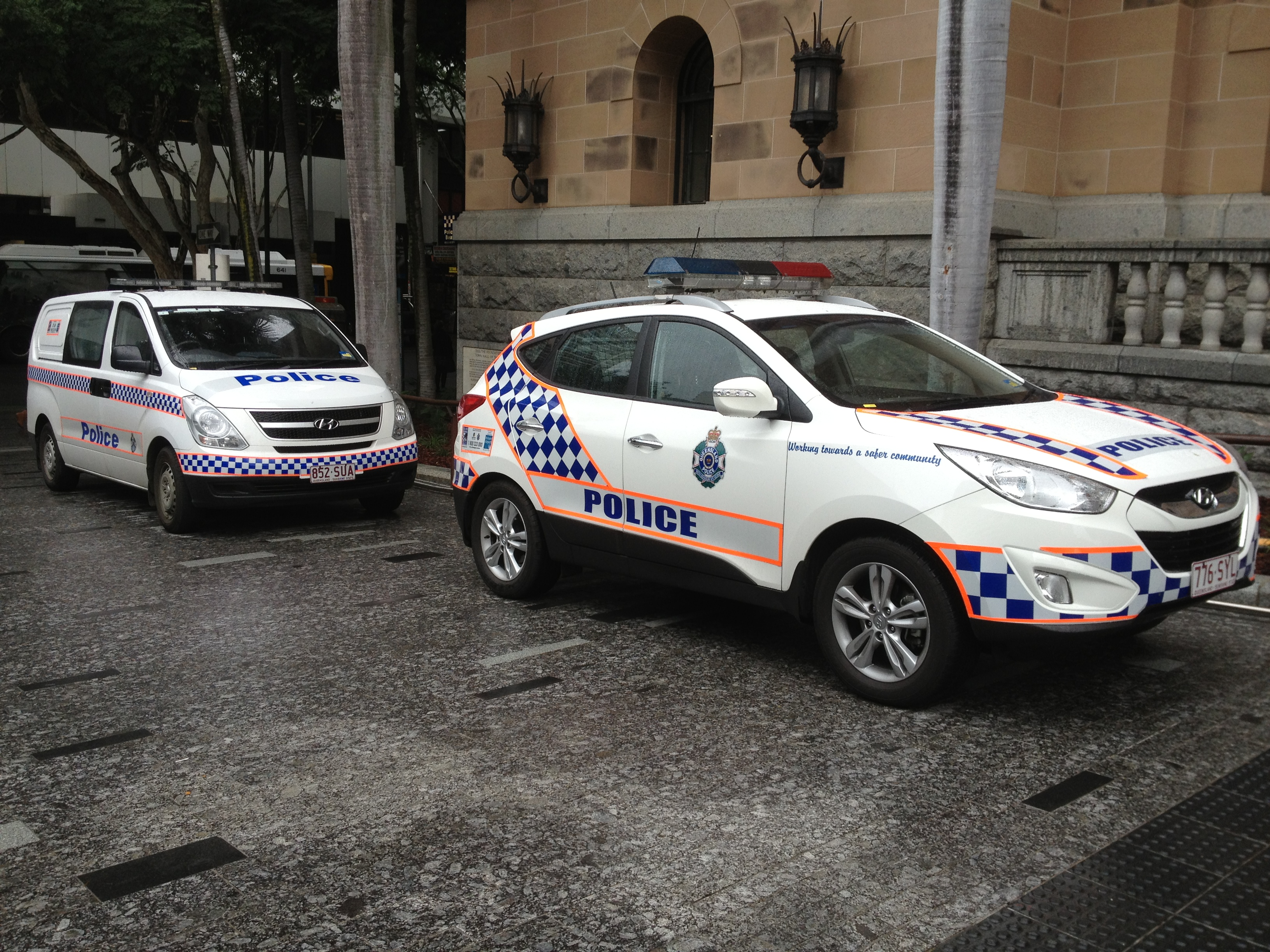 Queensland Police Hyundai Vehicles in Brisbane